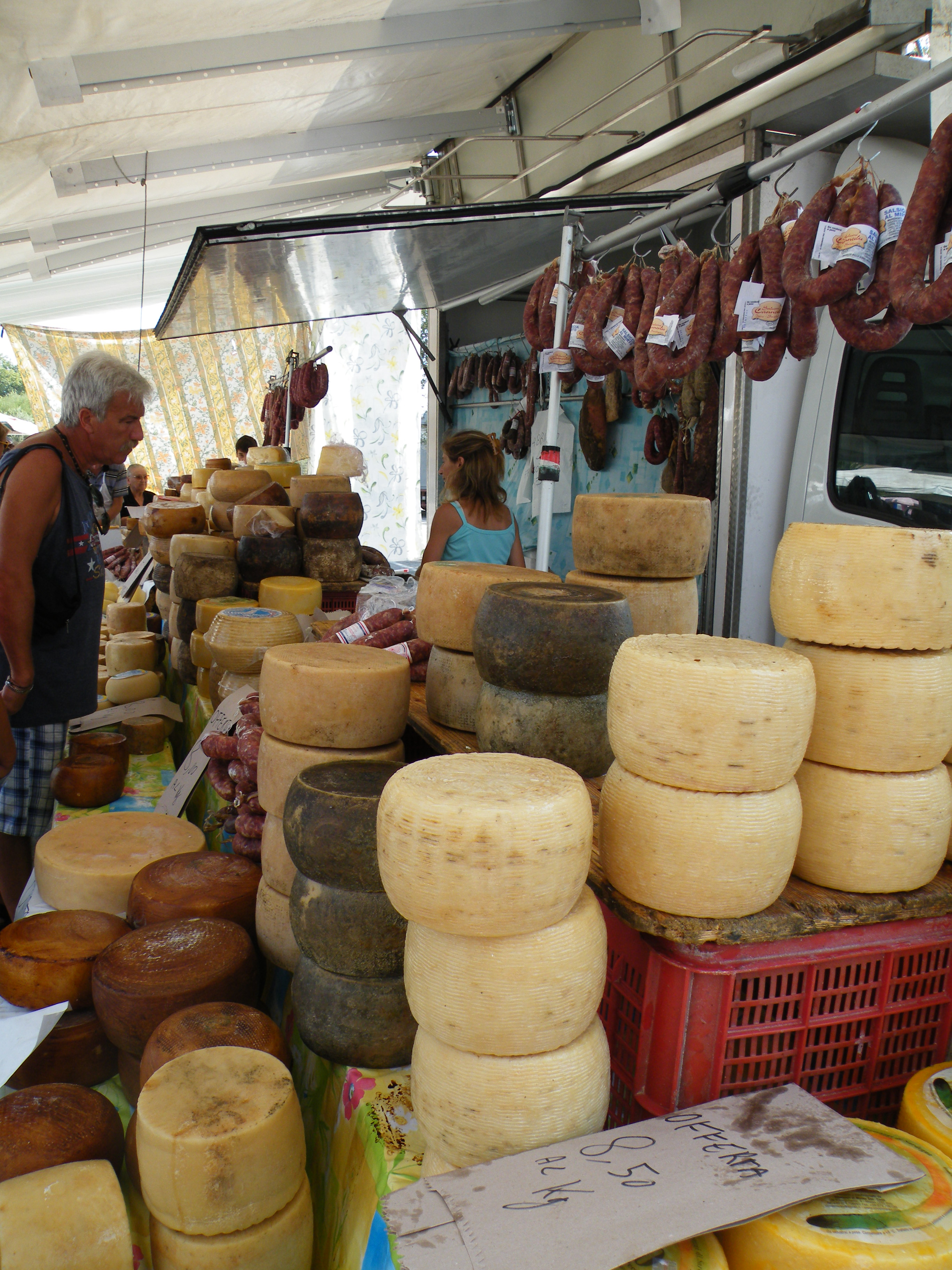 Cheeses and sausages from Sardinia Island (Alghero Public Market)